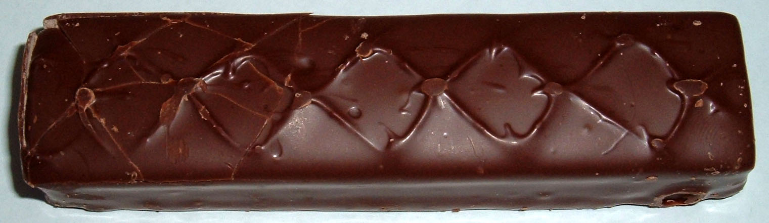 3 Musketeers barPurchased Feb. 2005 in Atlanta, GA, USA